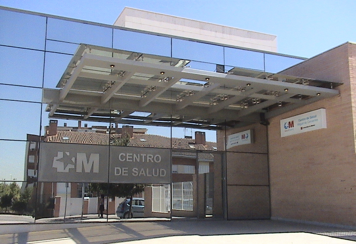 Miguel de Cervantes Health Center. Alcalá de Henares (Community of Madrid - Spain).